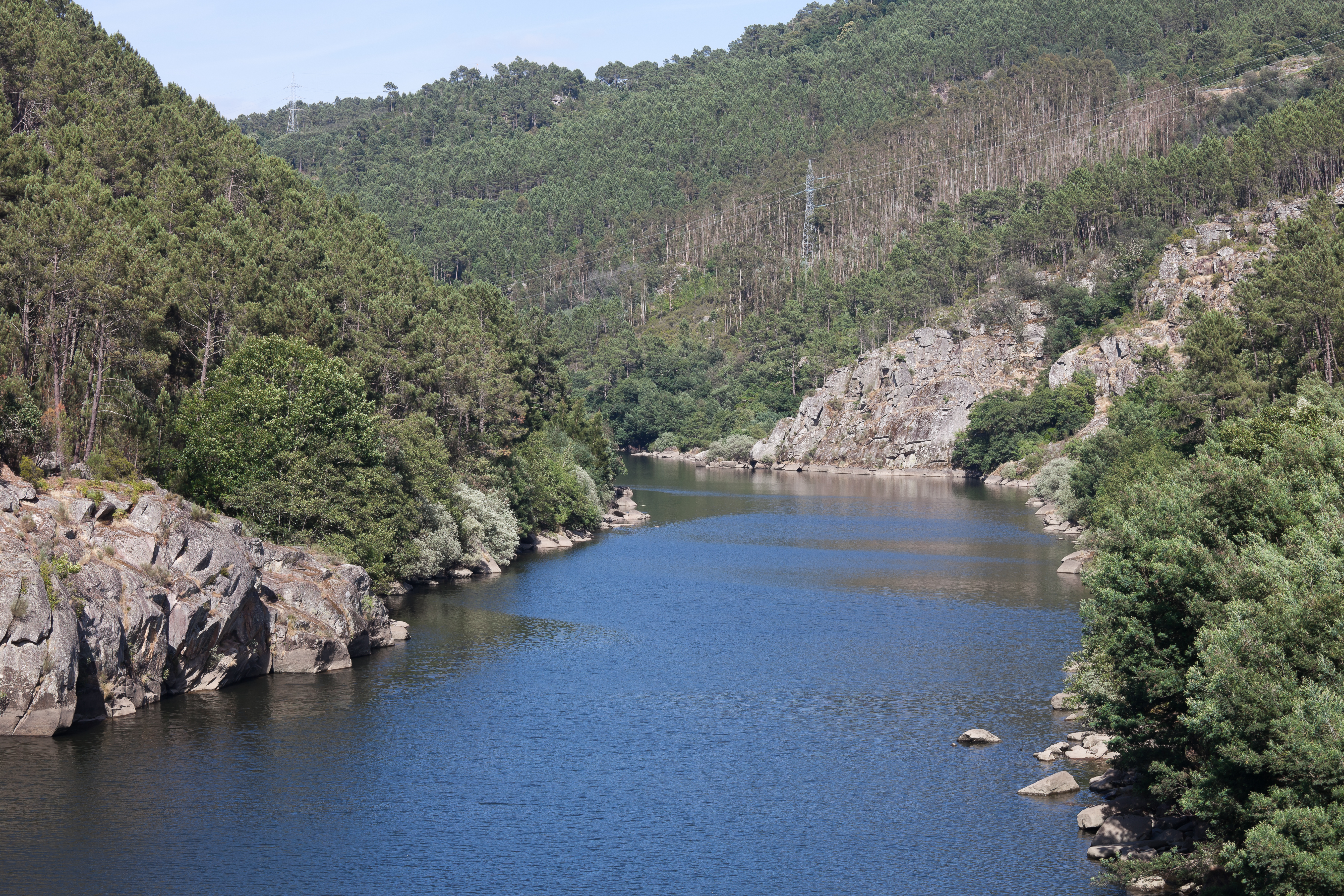 Miño river